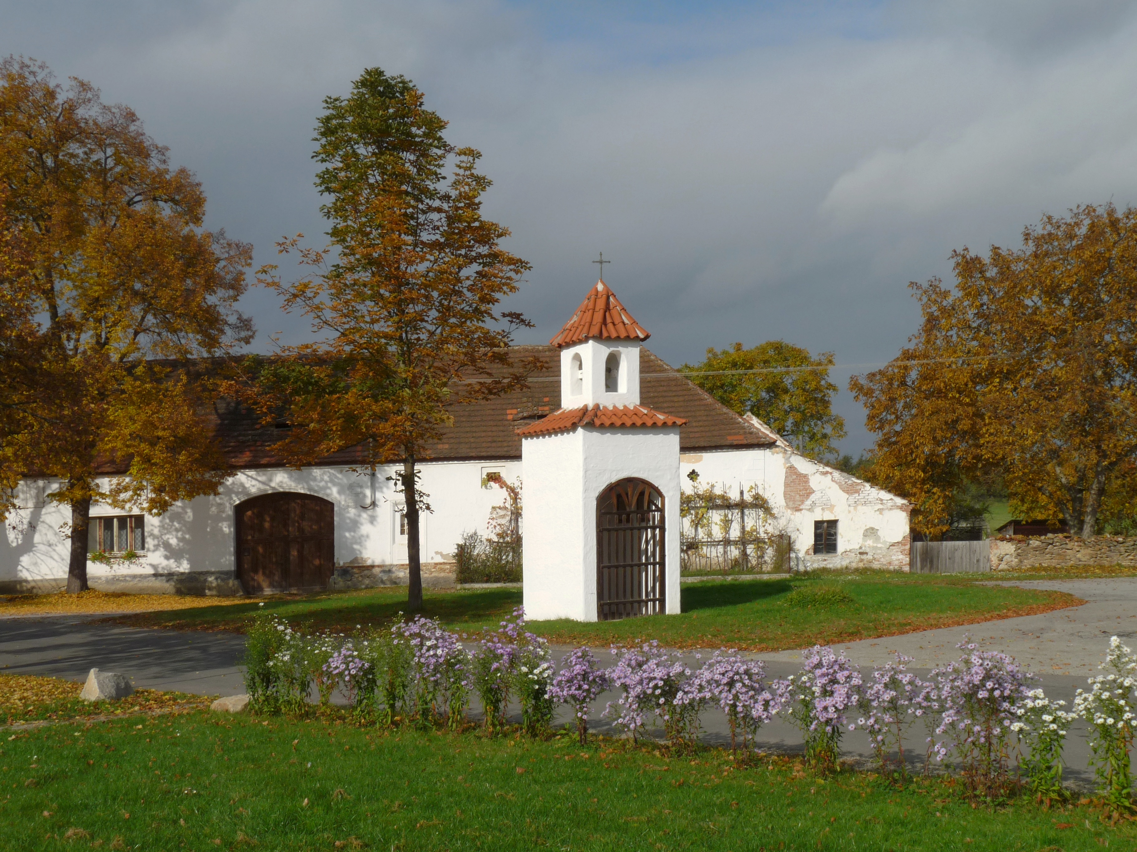 Wayside shrine in the village of Olšovice, Prachatice District, South Bohemian Region, Czech Republic.